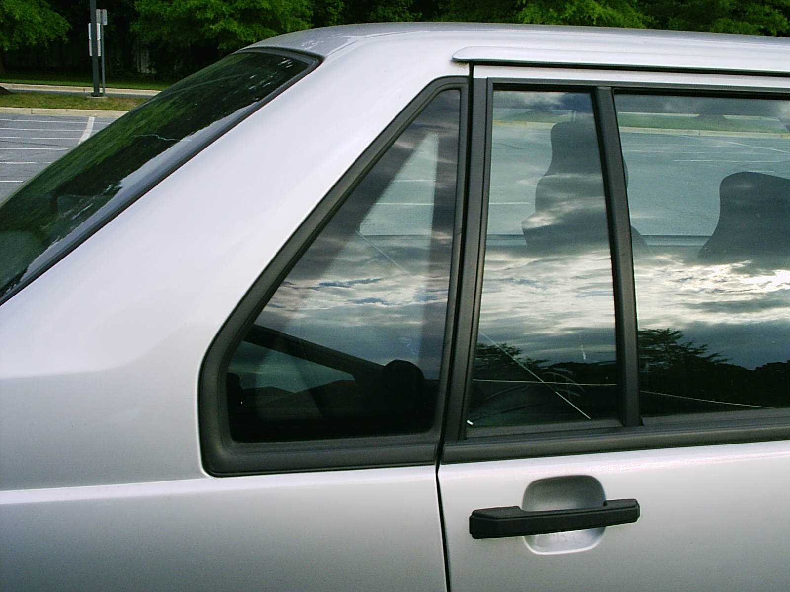 Two quarter glass windows on one car -- one fixed pane in the door and a second in the "C-pillar"